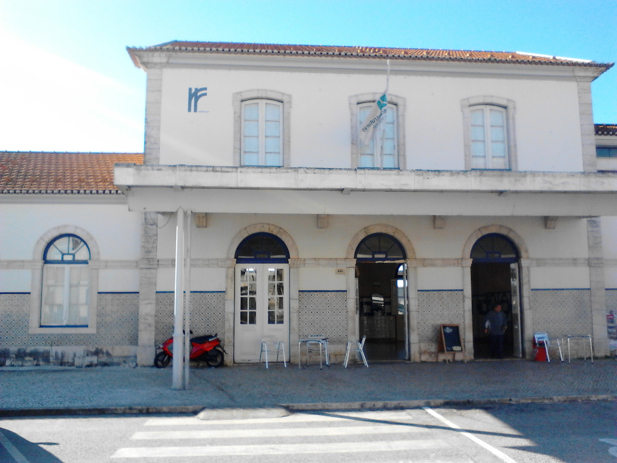 Entrance to Leiria train station